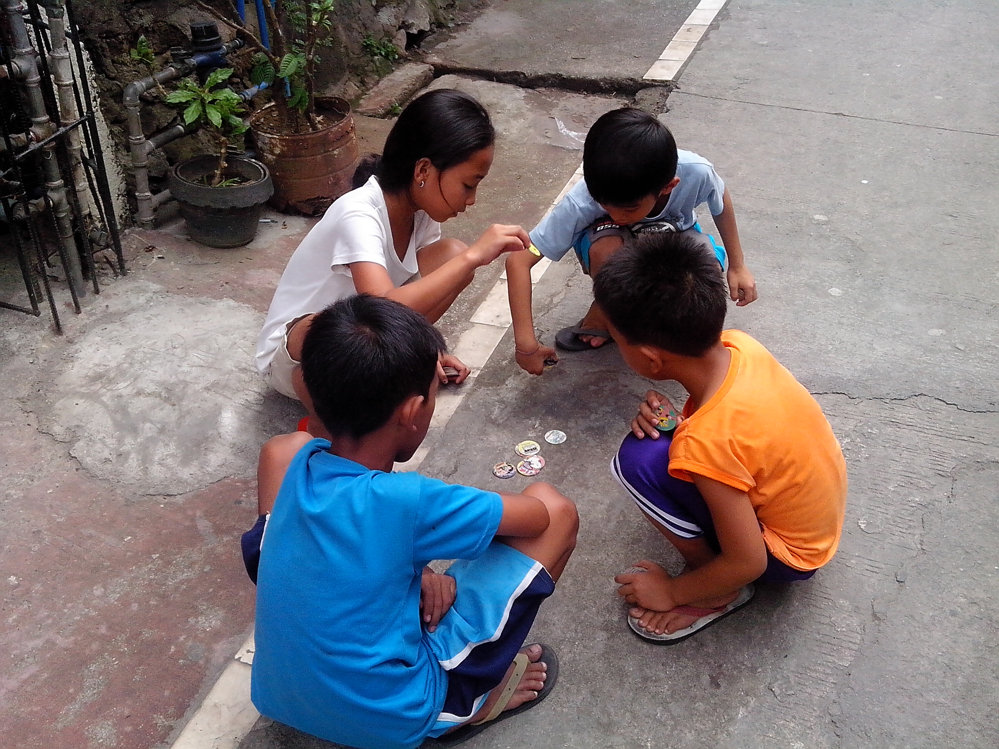 Filipino children playing pogs on the street